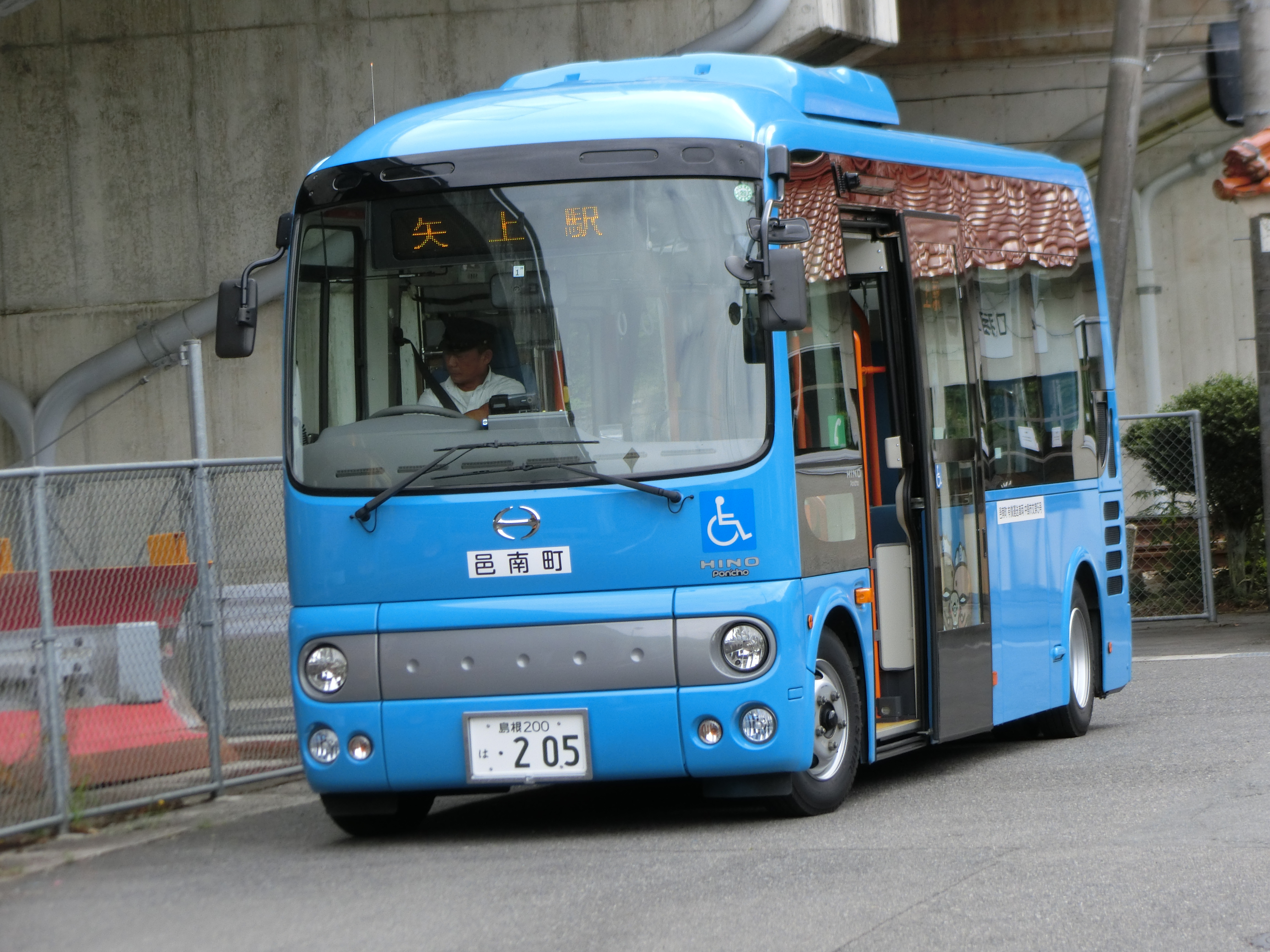 Hino Poncho used for Yagami Line of Onan Town Bus, Taken at Kuchiba Station.